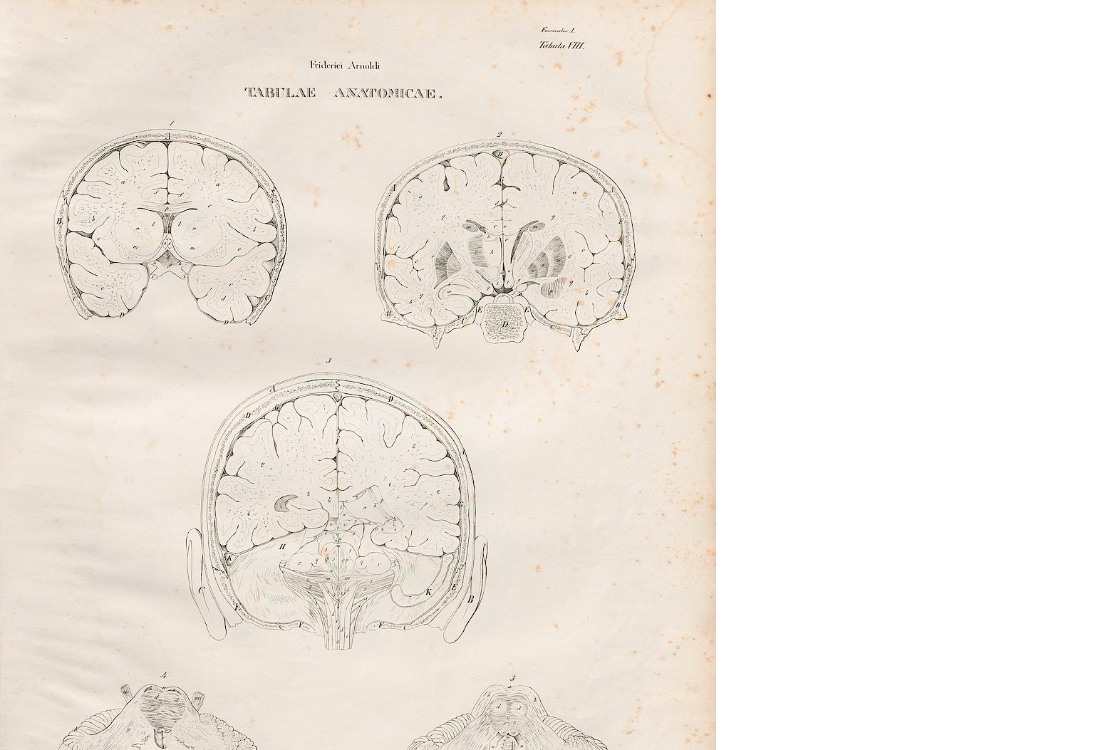 The brain from the Tabula Anatomica book of Friedrich Arnold